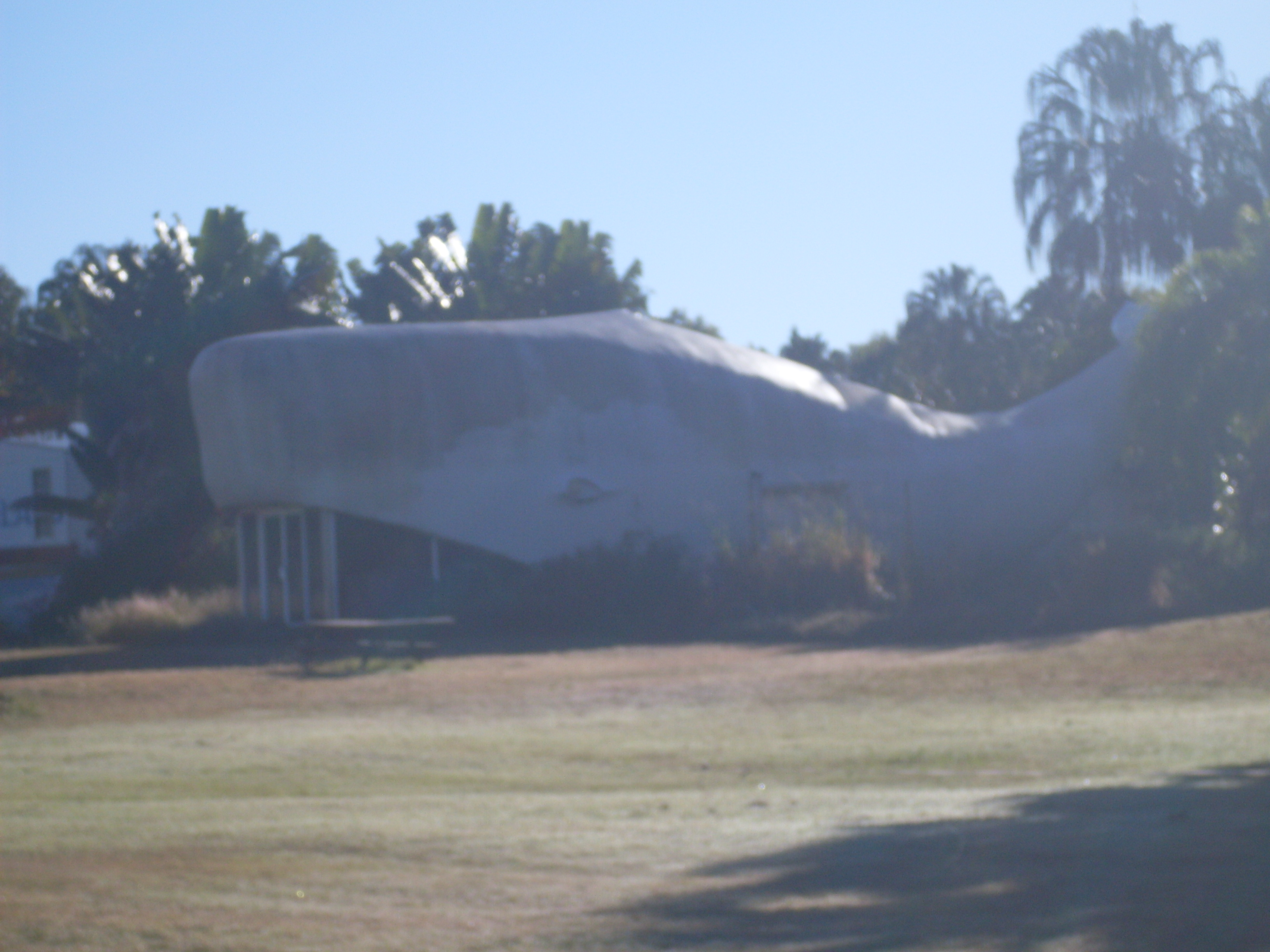 The Big Whale, as created by Kevin Logan, in Kinka Beach.